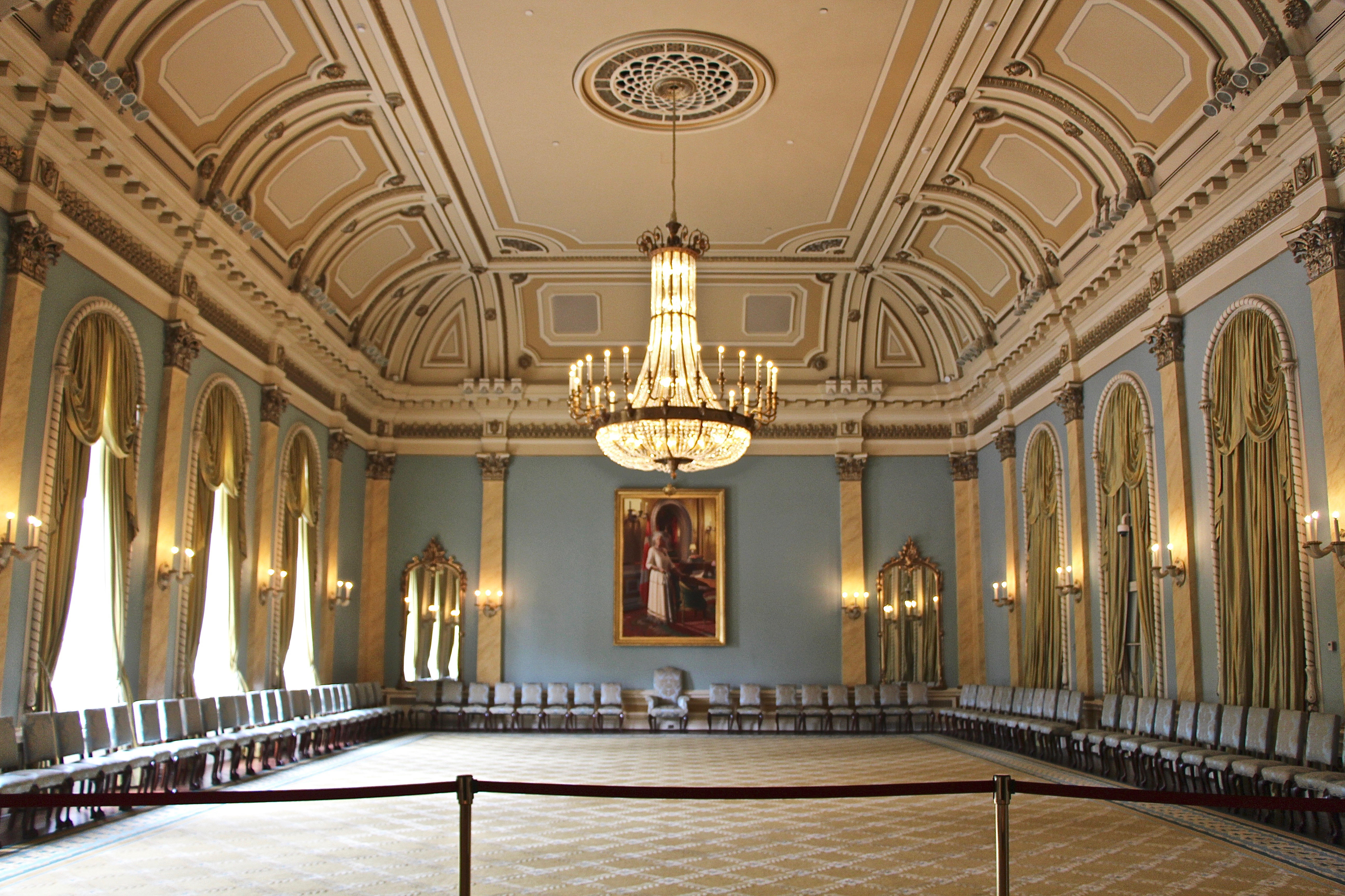 Ball room, Rideau Hall, 1 Sussex Drive, Ottawa, ON K1A 0A1.